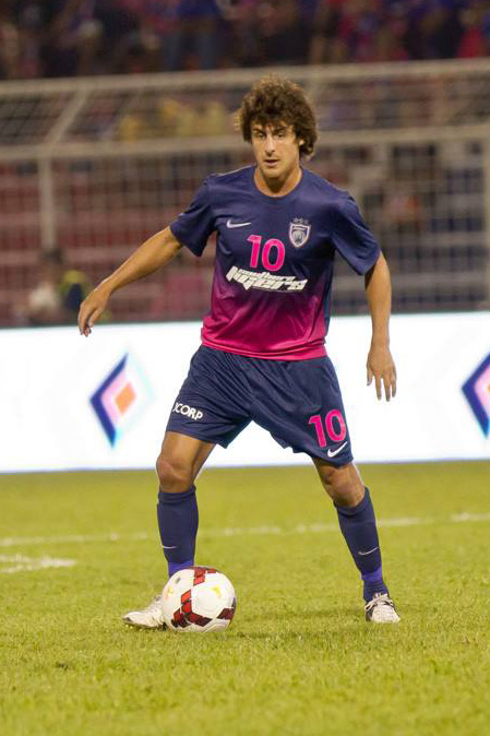 Pablo Aimar playing against Home United in a Charity Drive Match on 11 January 2014.